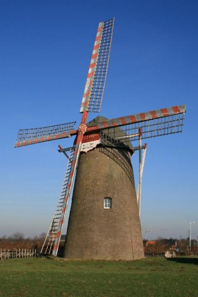 Cultural heritage monument No. 8 in Waldfeucht